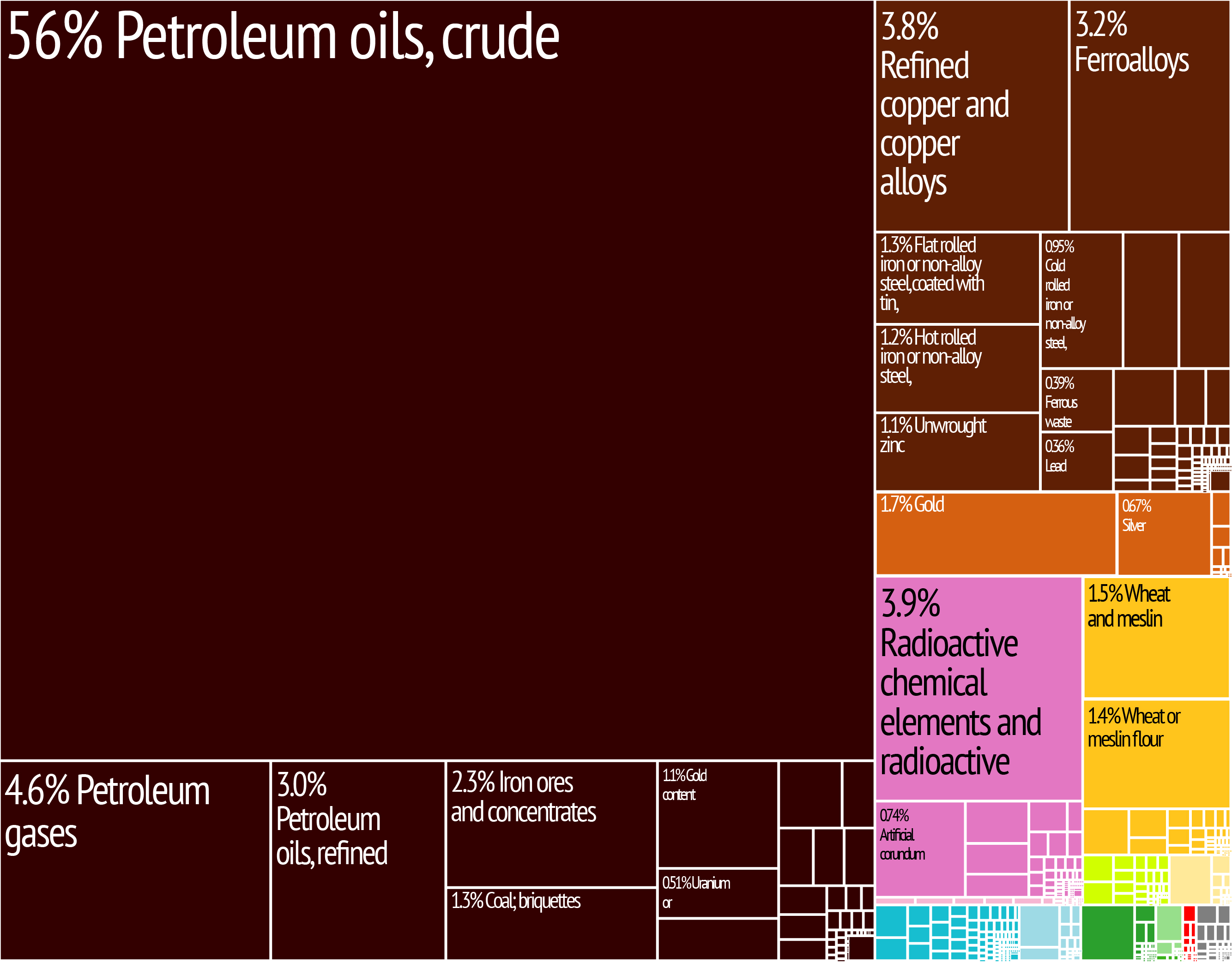 Kazakhstan Export Treemap from MIT Harvard Economic Complexity Observatory